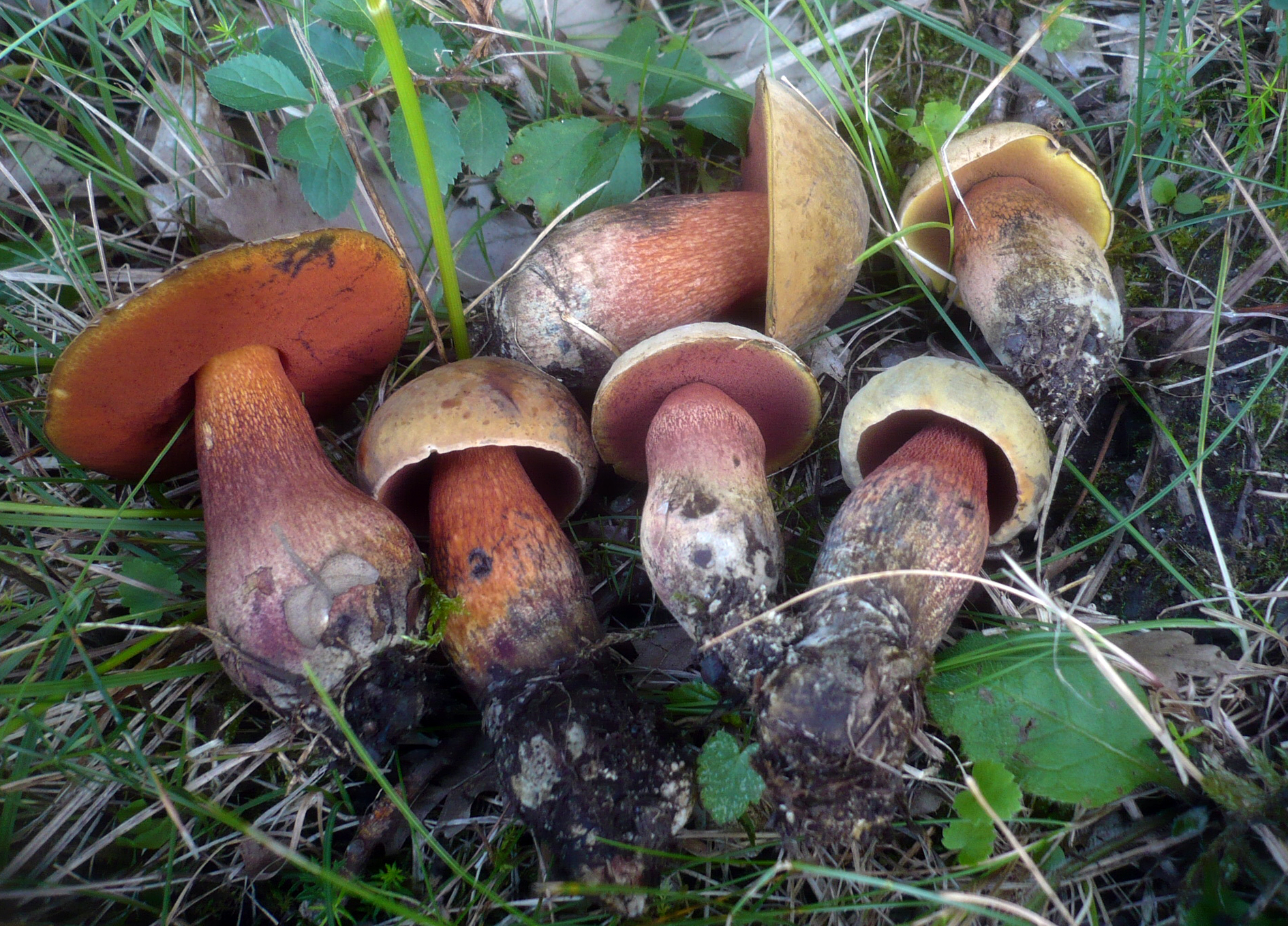 A collection of fruit bodies of the bolete mushroom Boletus luridus. Collected in Schattendorfer Wald, Schattendorf, Bezirk Mattersburg, Burgenland, Austria.